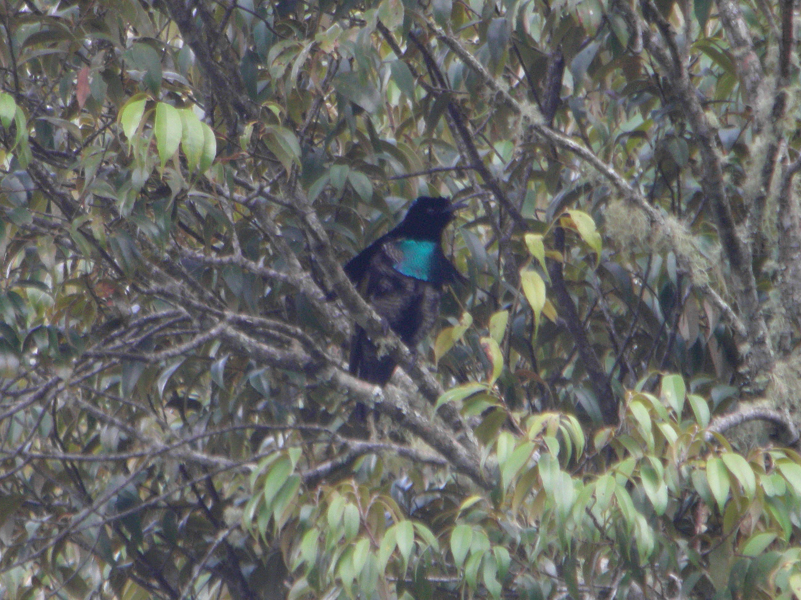 A male Superb Bird of Paradise in Papua New Guinea.